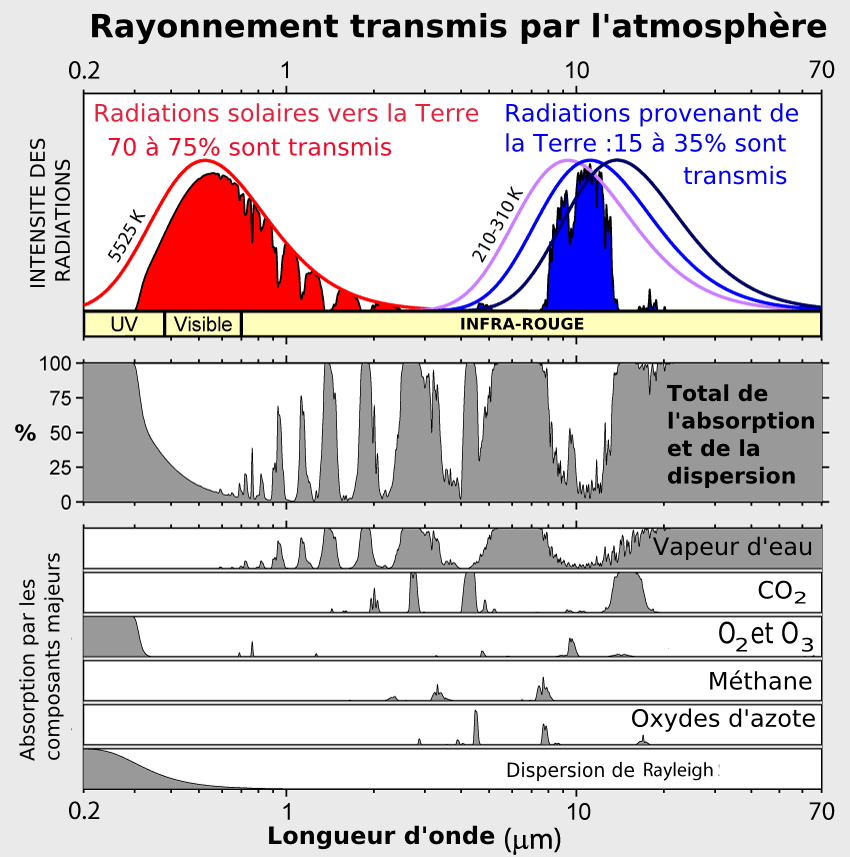 Radiation_transmise